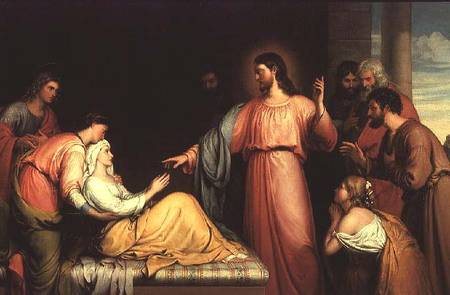 Christ Healing the Mother of Simon Peter